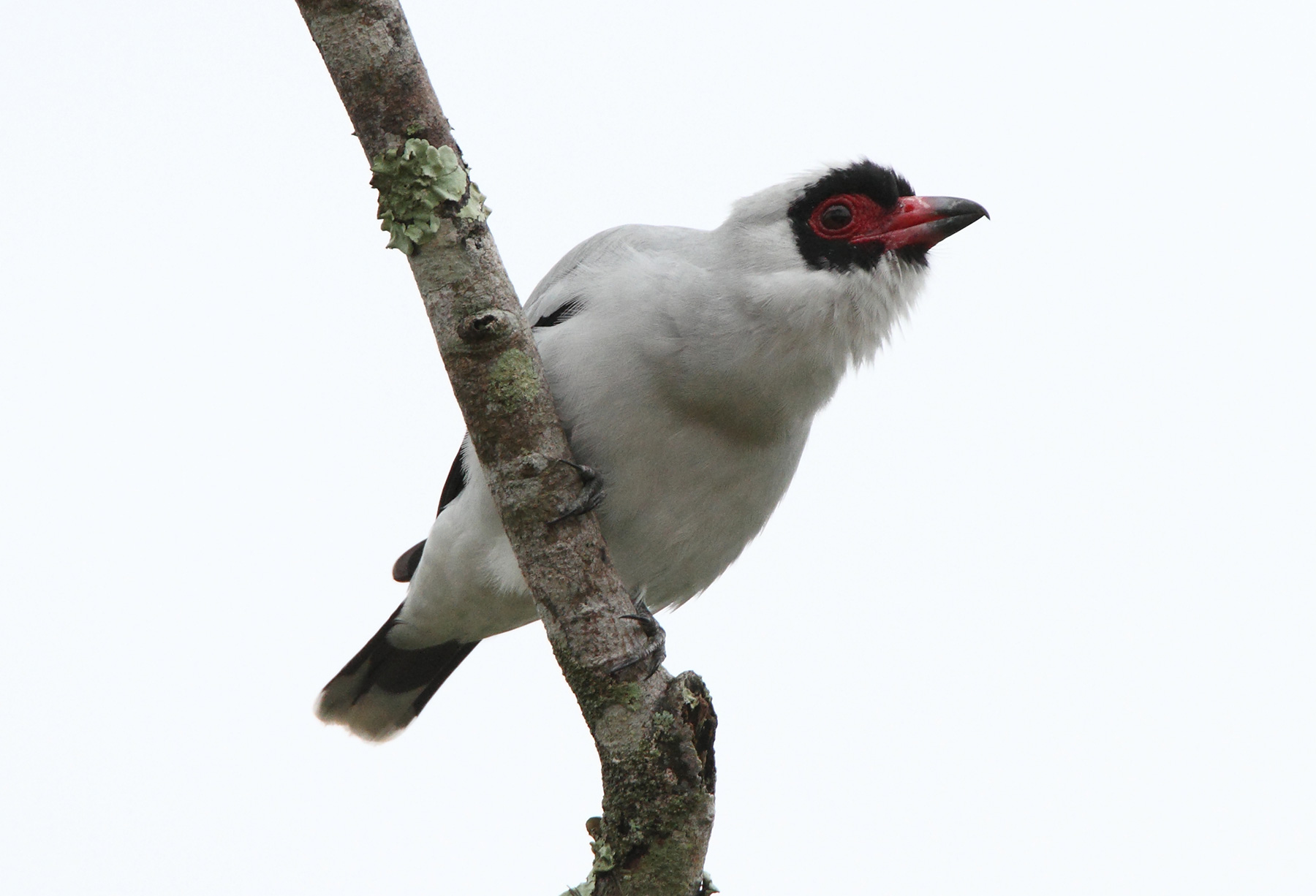 Masked Tityra (Tityra semifasciata), Turrialba, Costa Rica